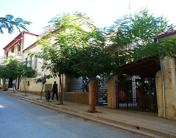 view from outside, image from the Archaeological Museum, Kozani, West Macedonia, Greece